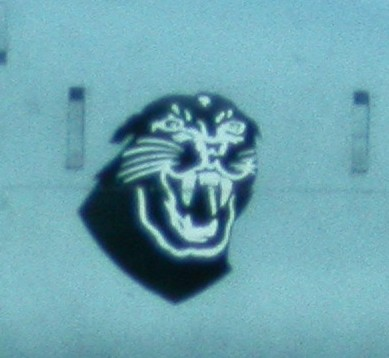 Squadron emblem of the Swiss Air Force